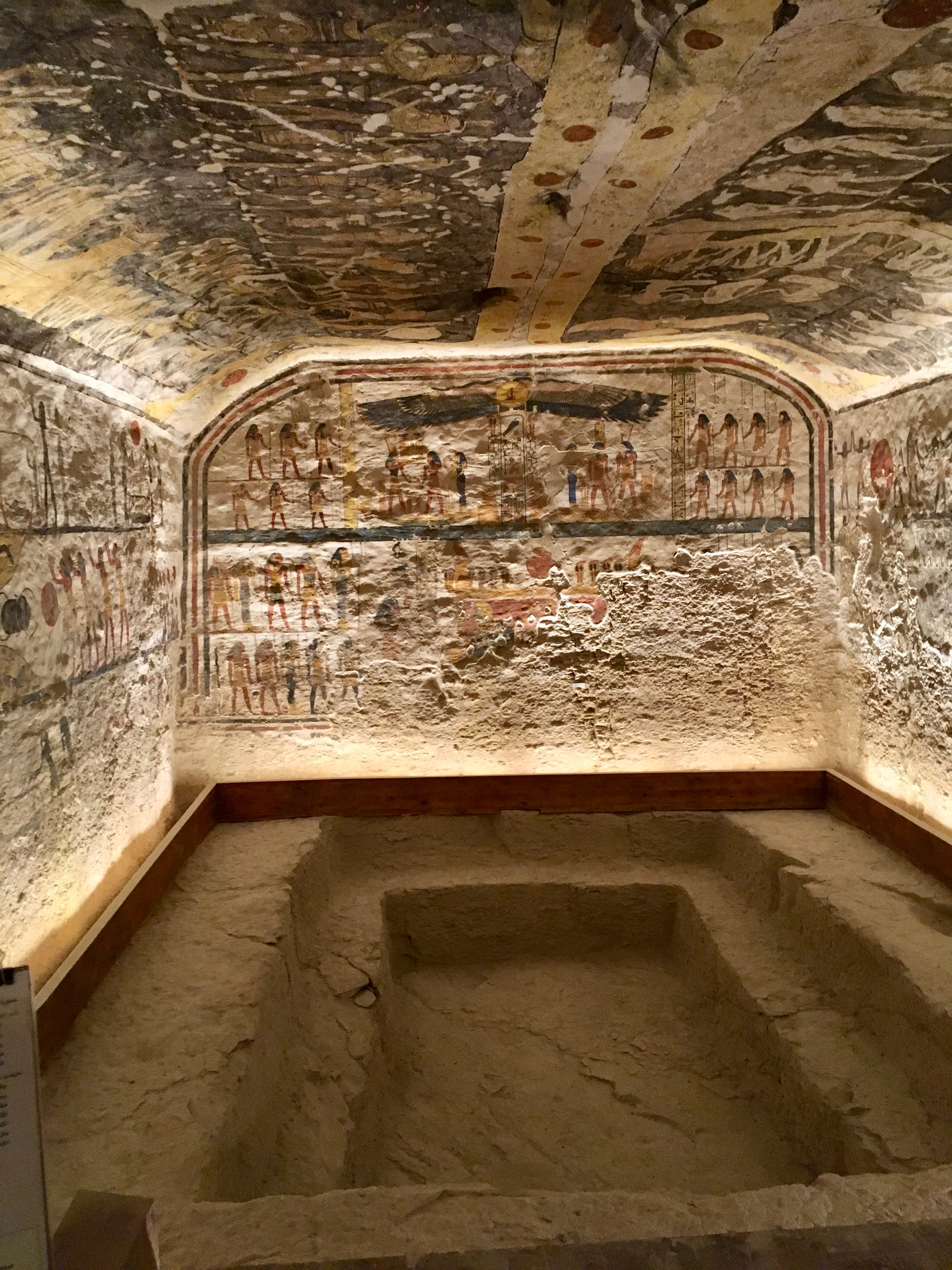 Burial chamber of Ramses IX. in the Valley of the Kings